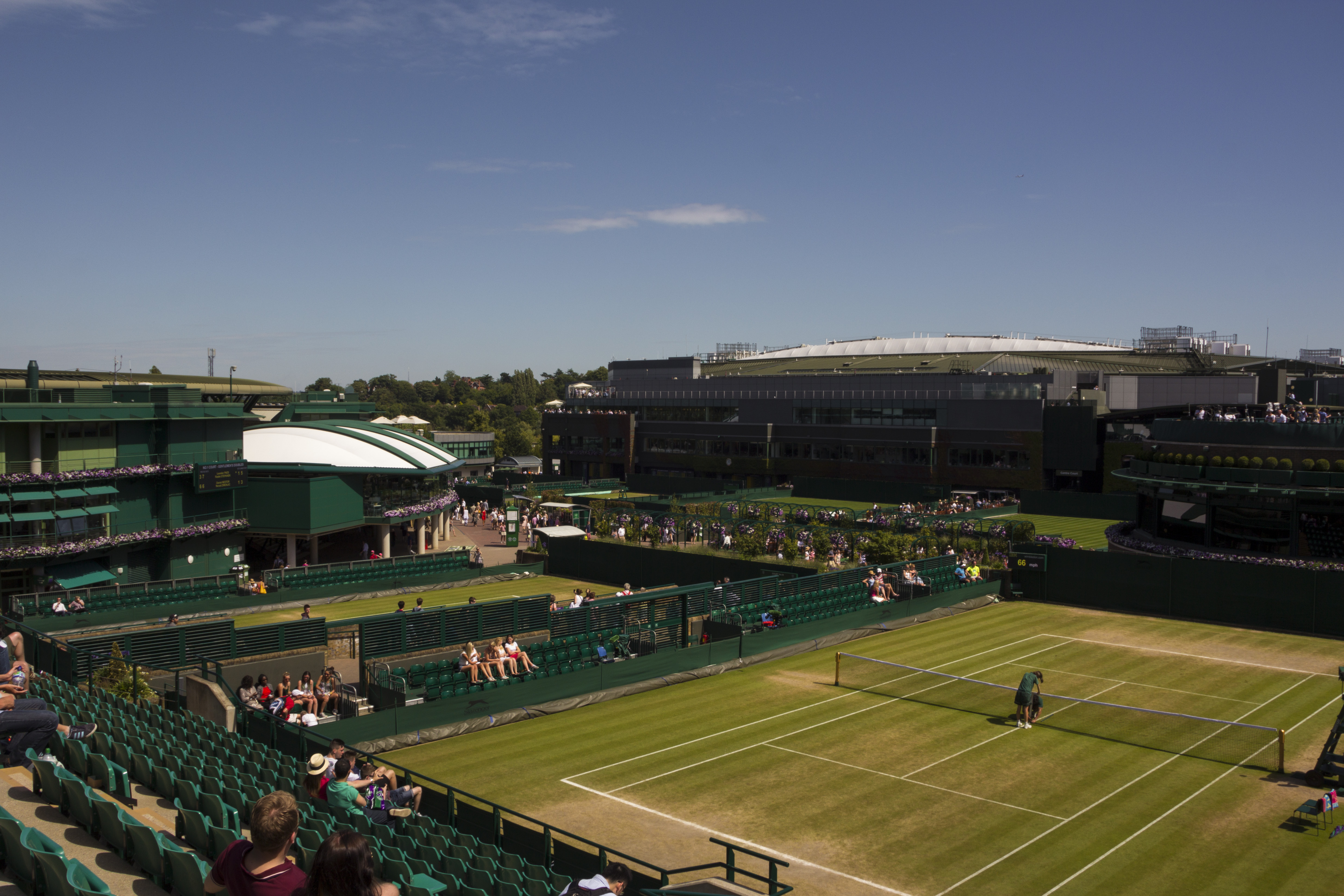 Wimbledon 2014